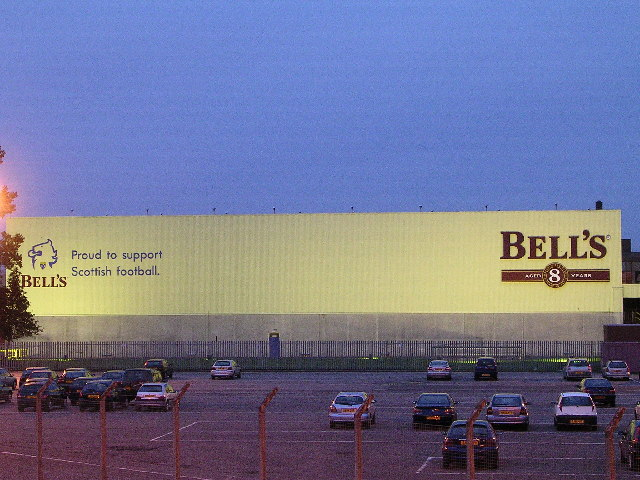 Shieldhall Whisky Bottling Plant. This is not an advertising hoarding, it's the side of a building at the Shieldhall Whisky Plant owned by Diageo. It produces around 19.2 million cases a year, making it the largest Scotch packaging plant in the world. The plant operates 7 high-speed lines and produces large volumes of Johnnie Walker as well as J&B, Bell’s 8 year old, Black & White and VAT 69.